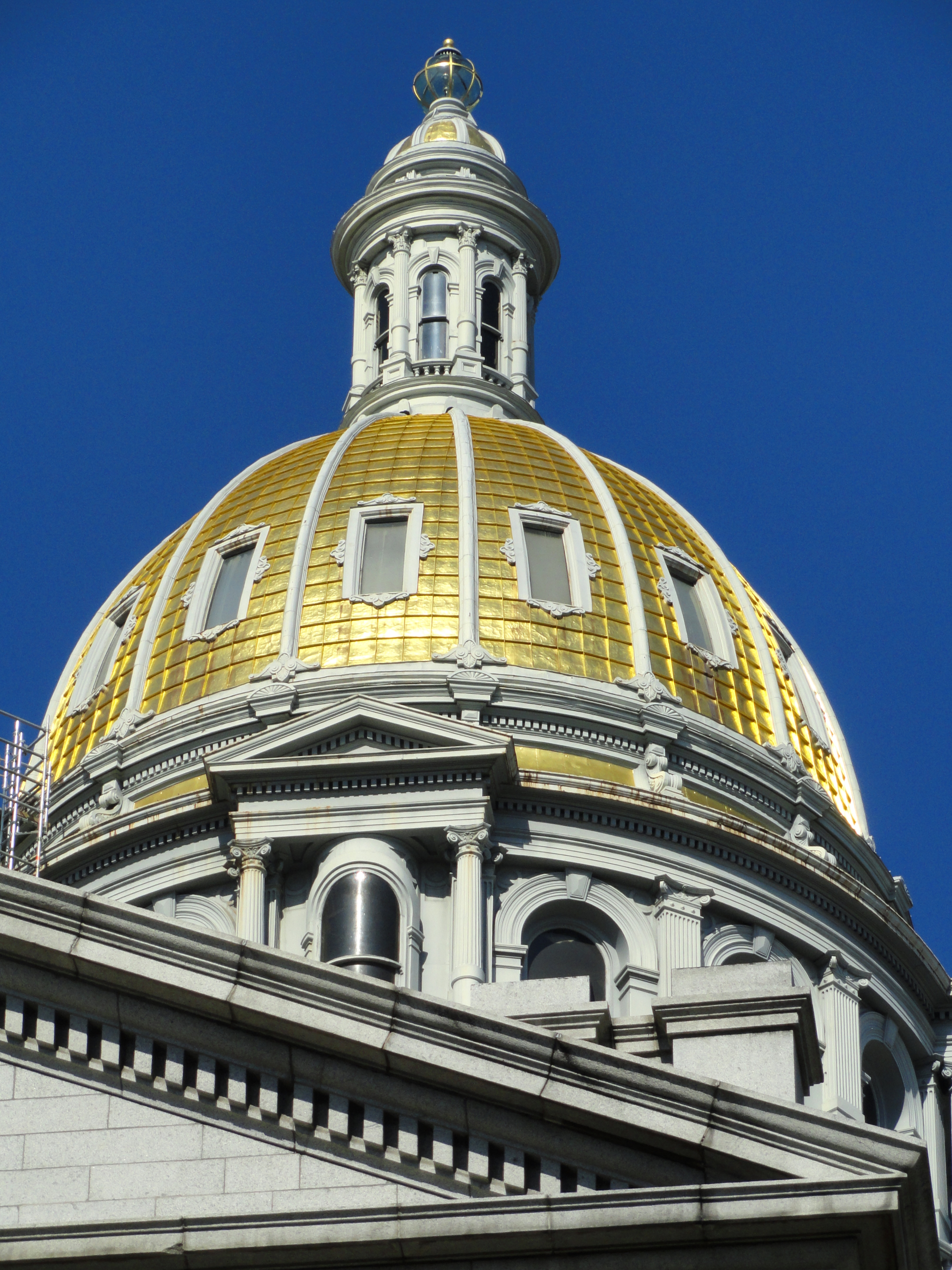 Dome of the Colorado State Capitol in Denver, Colorado, USA.